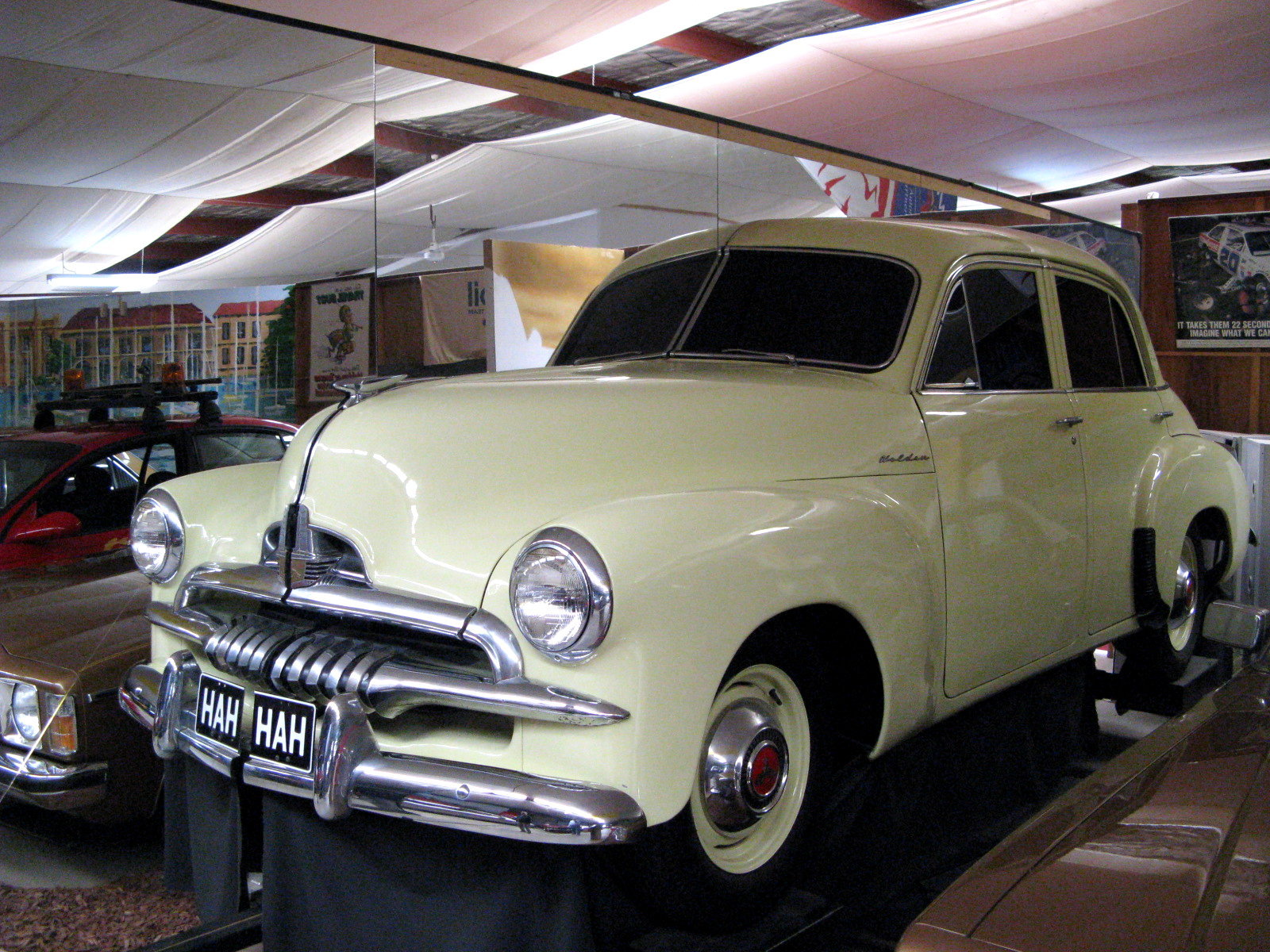 1953–1956 Holden FJ Special sedan, at National Holden Motor Museum, Echuca, Victoria, Australia.